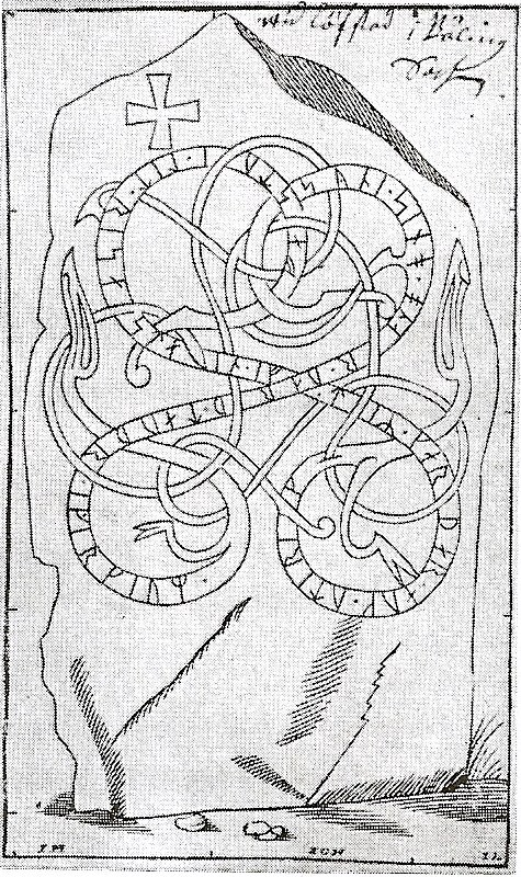 drawing of runestone U 1087 by J. Hadorph and J. Leitz in Peringskiöld's Monumenta and B 477. Former location of stone.